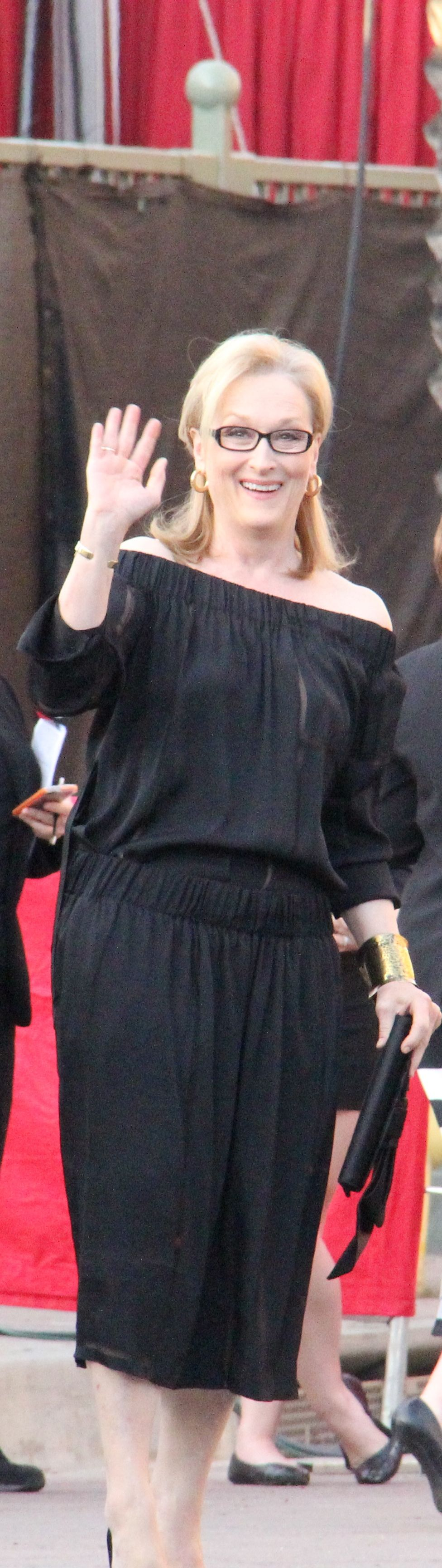 Meryl Streep At The 2014 SAG Awards